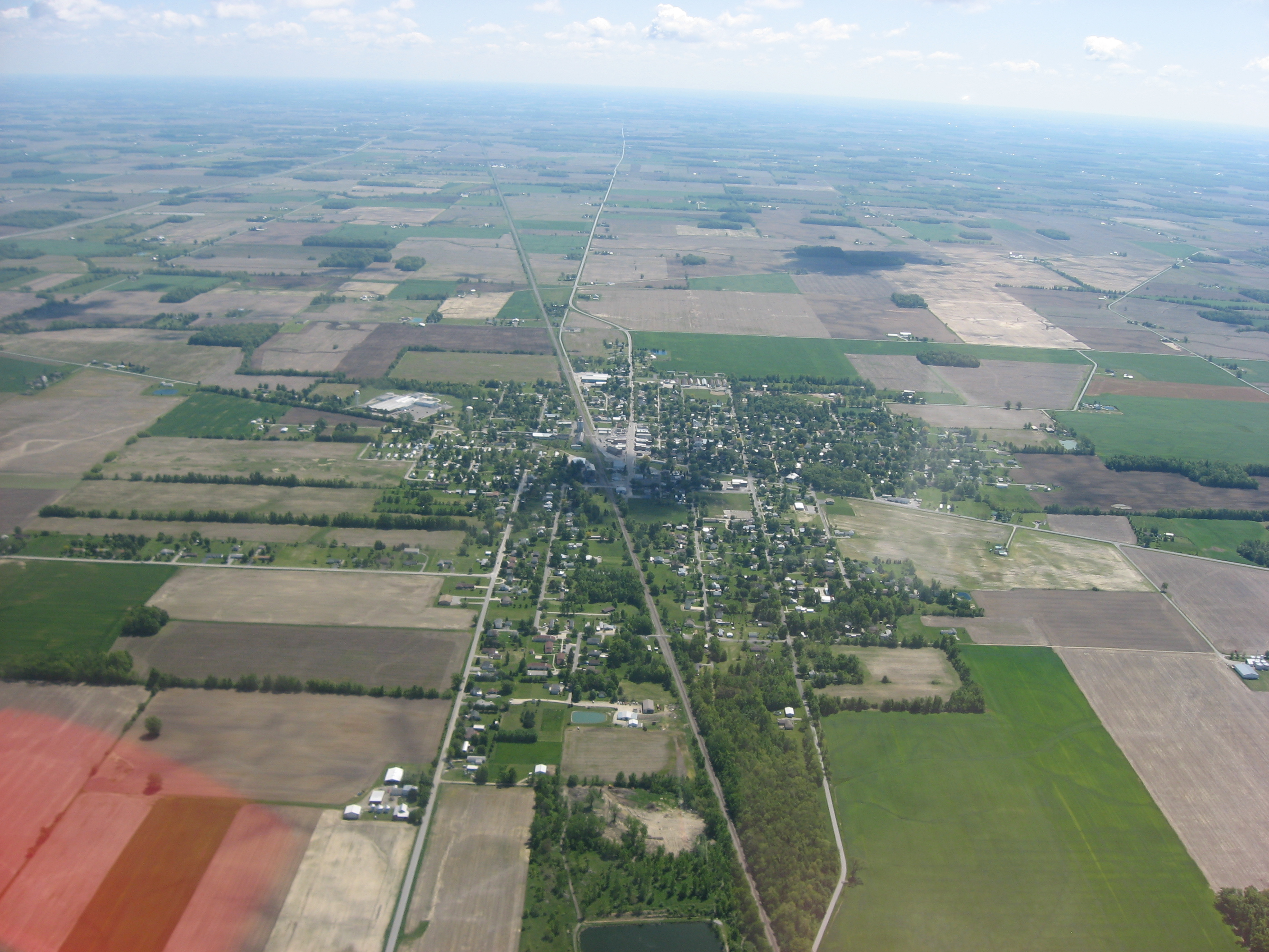 Aerial view of Forest, a village in Hardin County, Ohio, United States. Picture taken from a Diamond Eclipse light airplane at an altitude of 3,500 feet MSL and a bearing of approximately 90º.